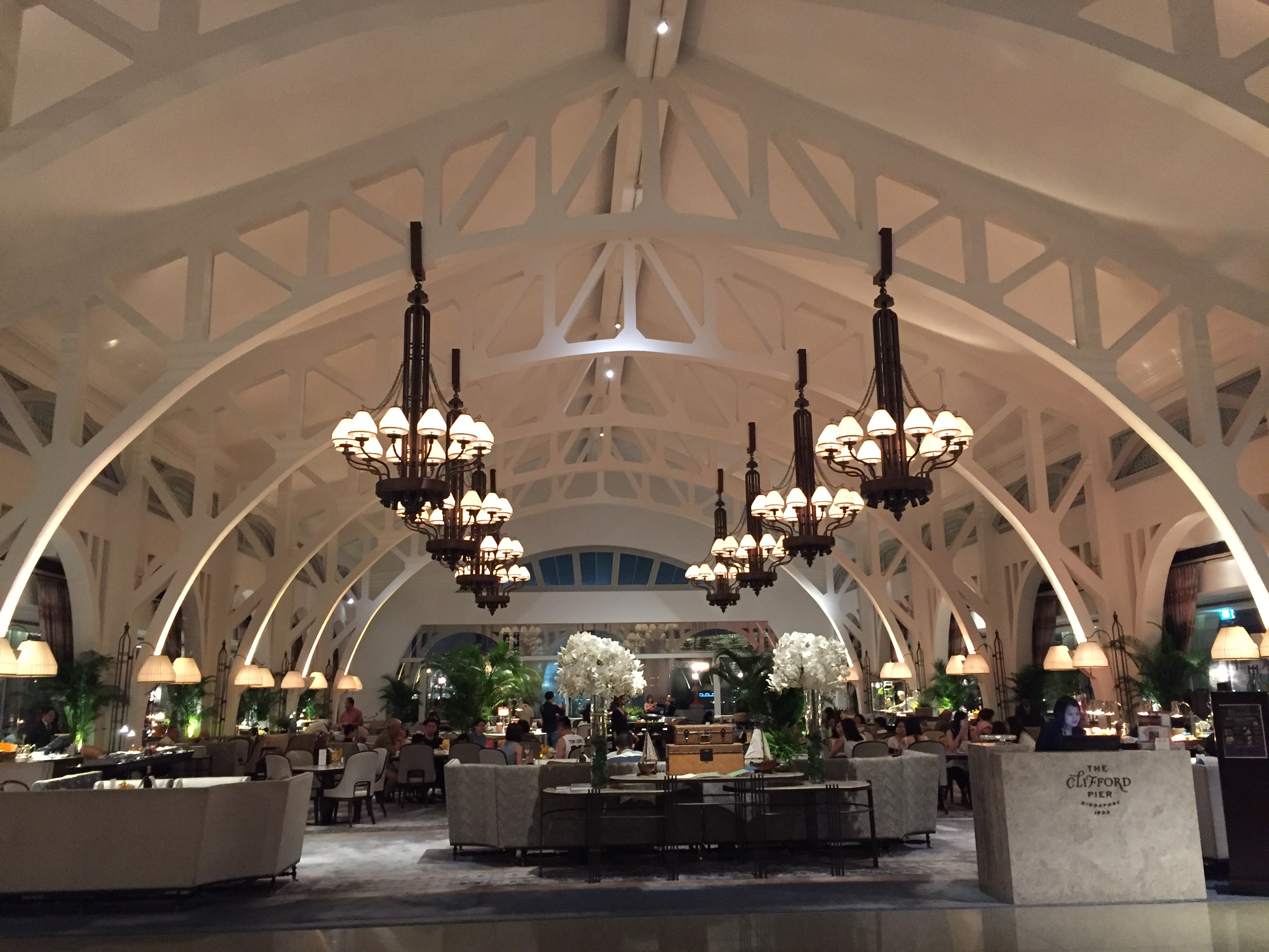 The Clifford Pier, a restaurant in The Fullerton Bay Hotel, Singapore. It occupies the part of hotel that was once Clifford Pier.